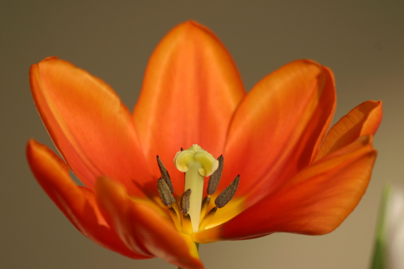 Tulip flower